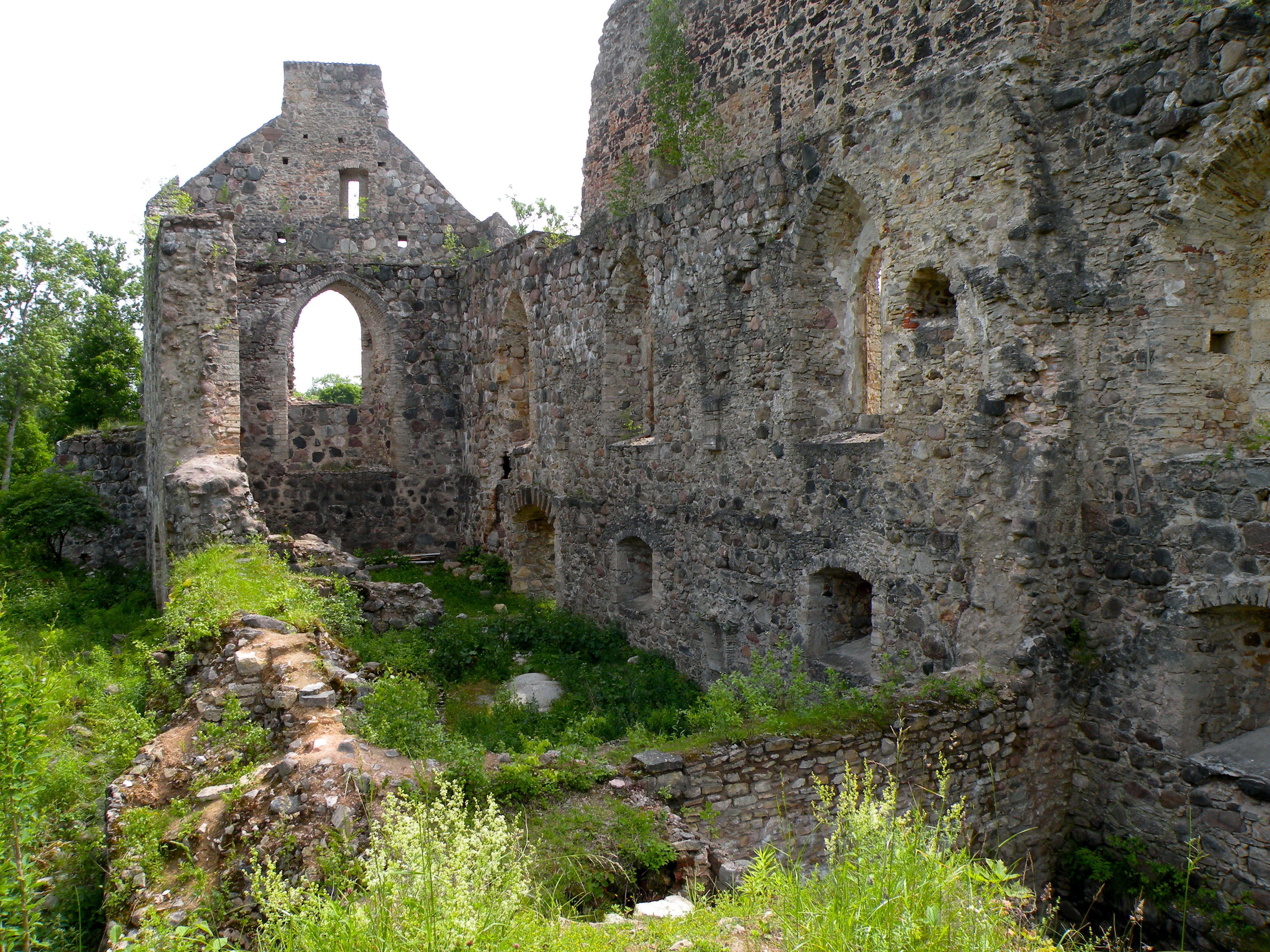 Ruins of the mediaeval Sigulda castle in Latvia